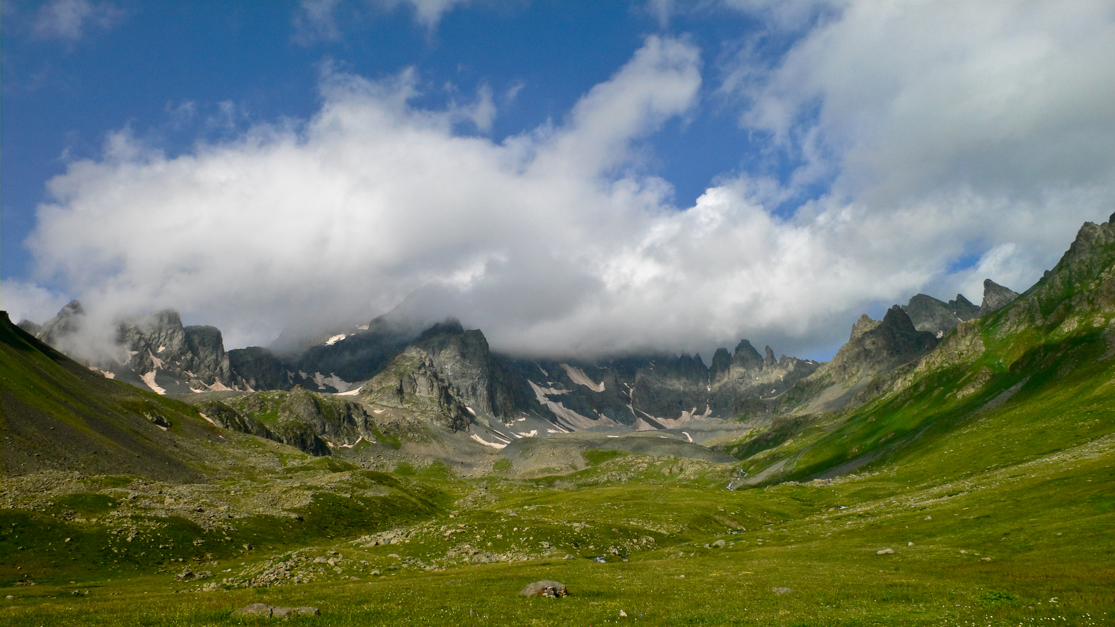 On the way from Ulgunlar to Yukari Kavron Best viewed large Now in wallpaper form: 1920x1200 or 1600x1200